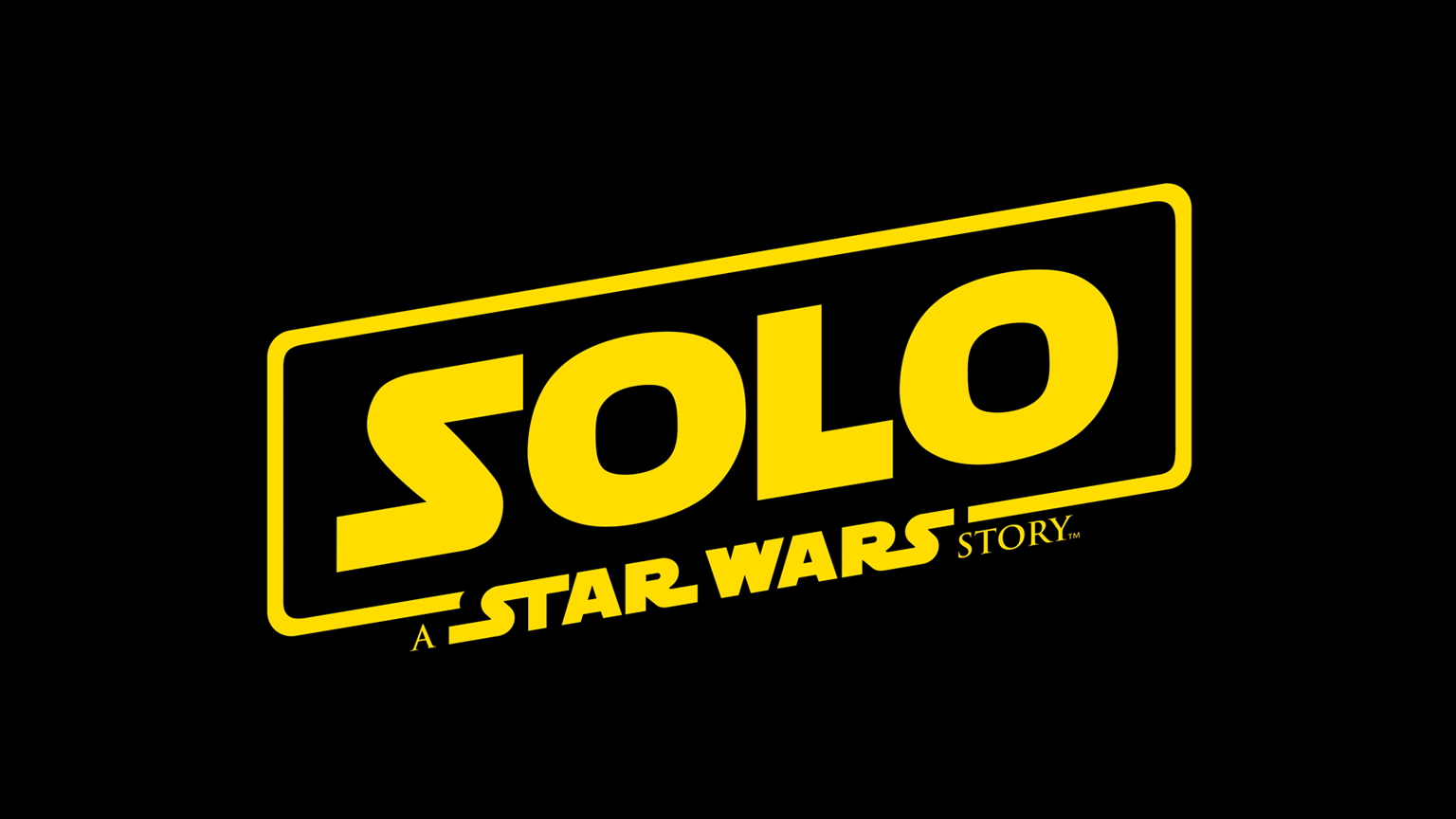 Logo for 2018 film Solo: A Star Wars Story